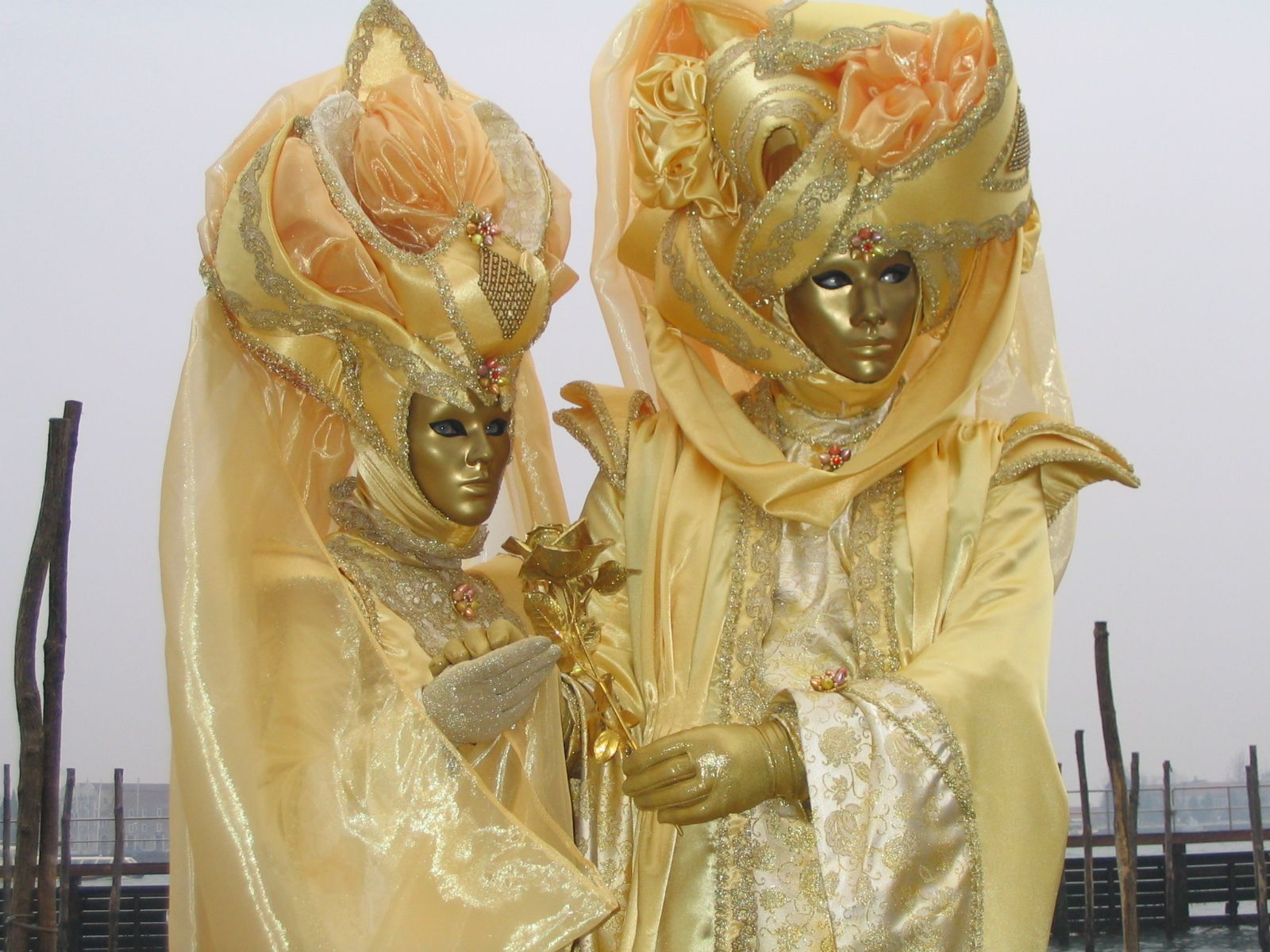 Batch Photo By wanblee =